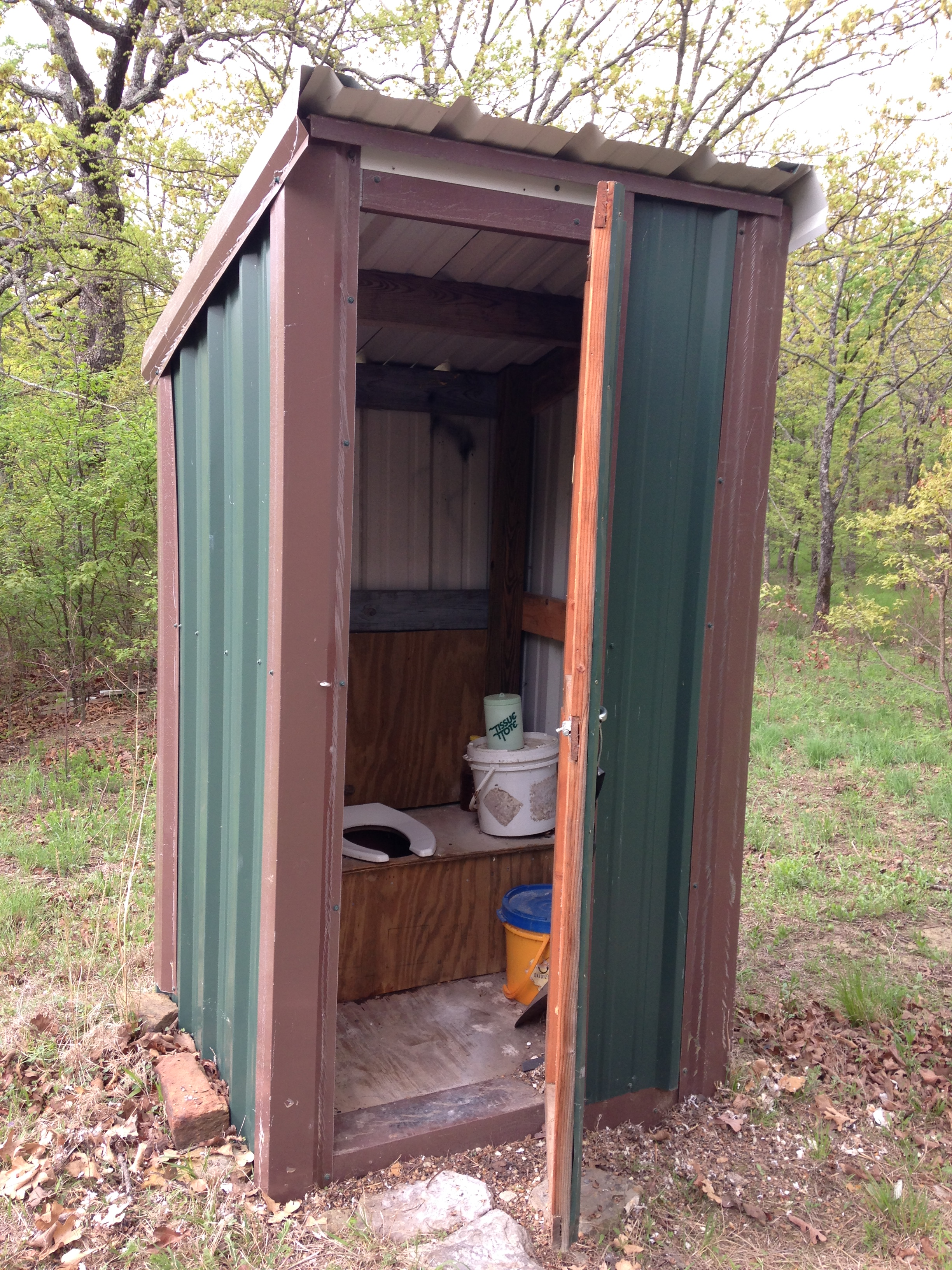 Outhouse (latrine, privy, dunny) at Camp Baker near Lake Henryetta in Oklahoma